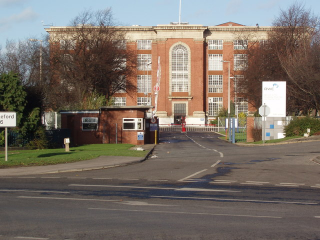 Ferrybridge Engineering Workshops The former Ferrybridge "A" Power Station when it closed was converted into regional engineering workshops by the C.E.G.B. With the privatisation of electricity generation, the workshops are now part of RWE.